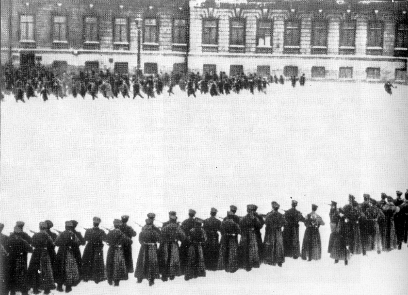 "Bloody Sunday" in Russia 1905 (reconstitution)